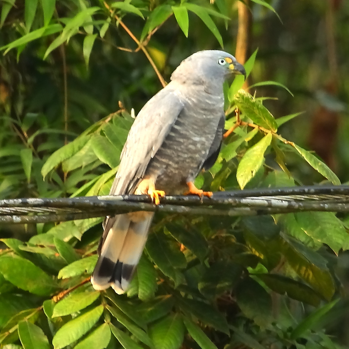 Hook-billed Kite at Peruíbe - SP - Brazil